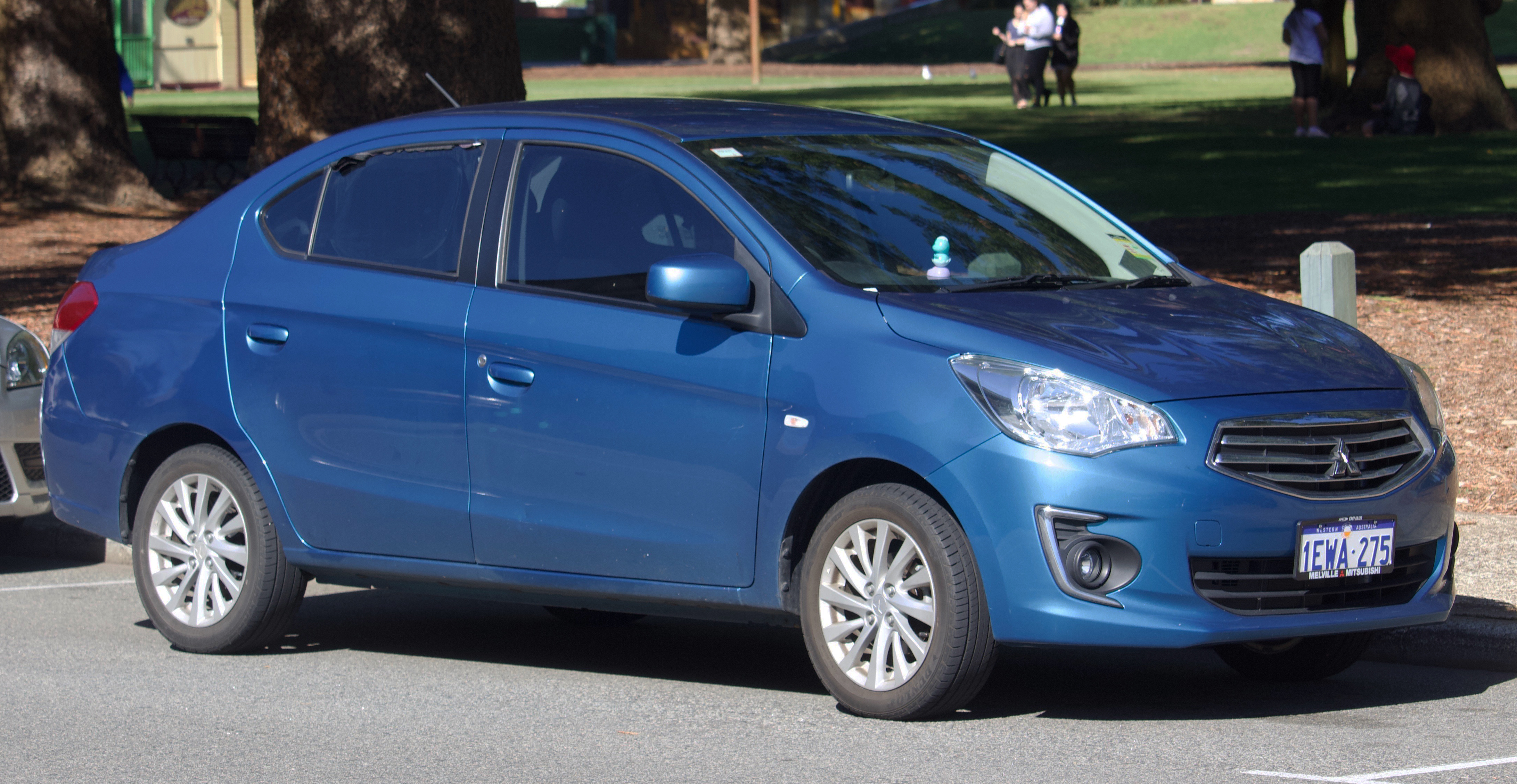 2015 Mitsubishi Mirage (LA MY15) sedan. Could not tell whether it was ES or LS. Photographed in Fremantle, Western Australia, Australia.